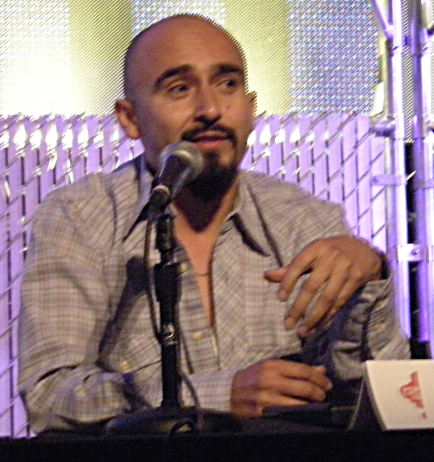 Raúl Pacheco of Ozomatli on the keynote panel of 2008 Pop Conference, Experience Music Project, Seattle, Washington. Panel was called "Ritmo and Blues: Hidden Histories Shaking Up 'American' Pop".